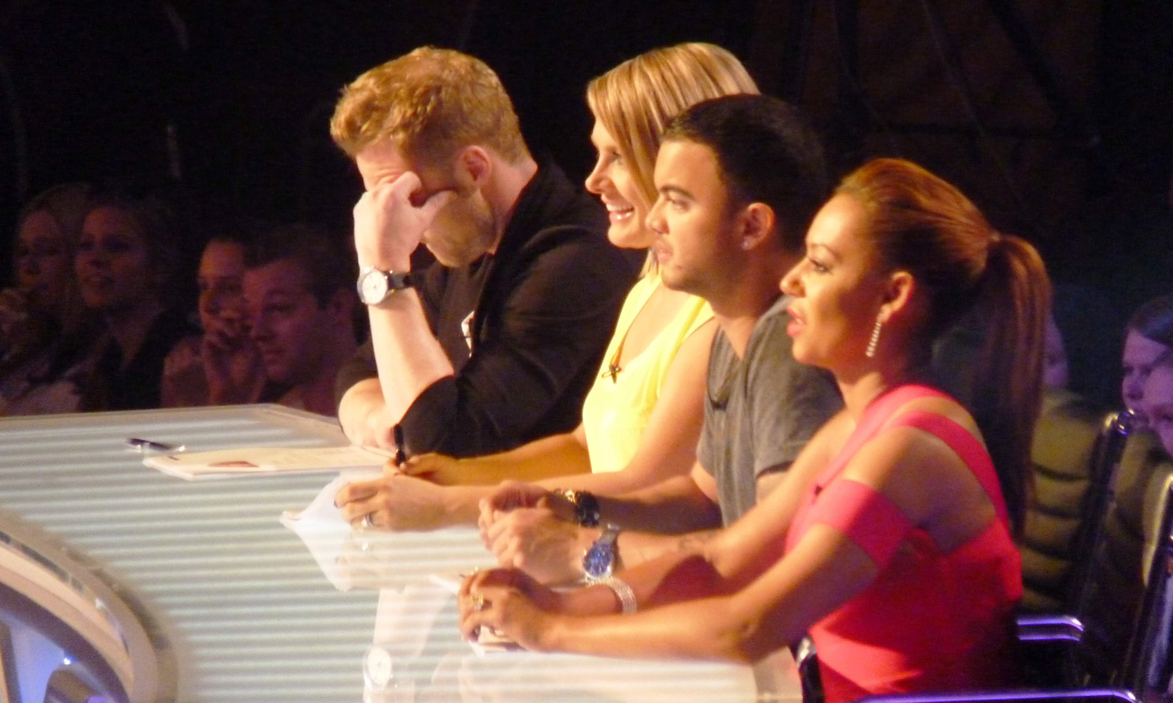 2012 Judges are Guy Sebastian, Mel B, Natalie Bassingthwaighte and Ronan Keating